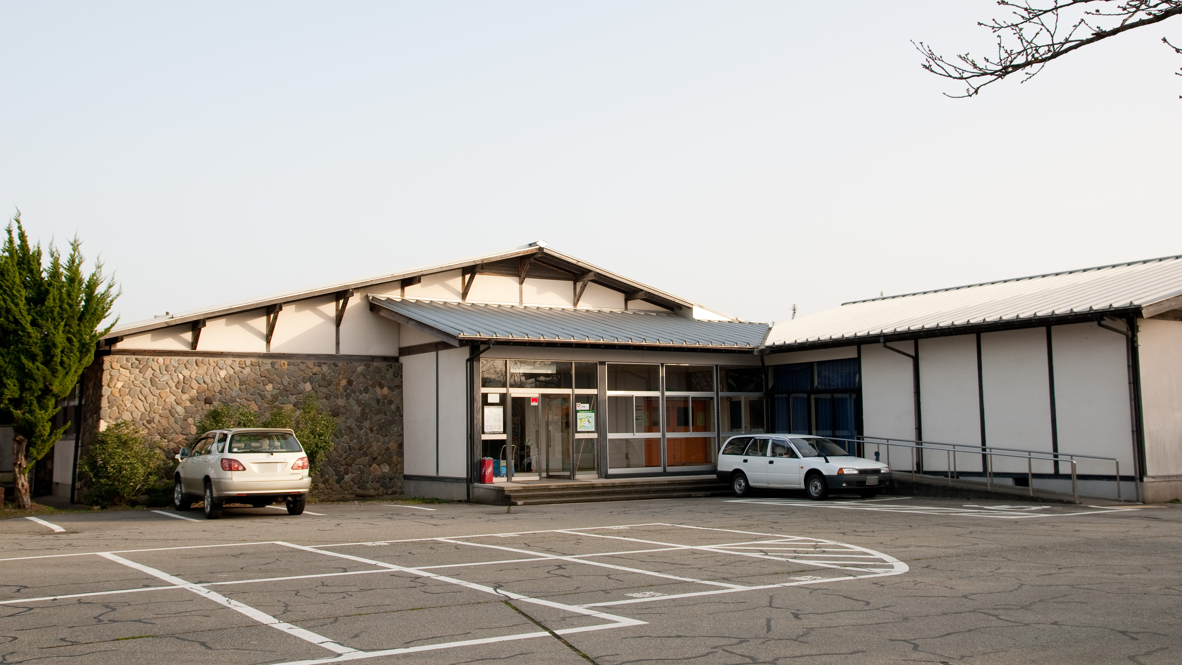 Hyogo prefecture Tajima Bunkyofu building.